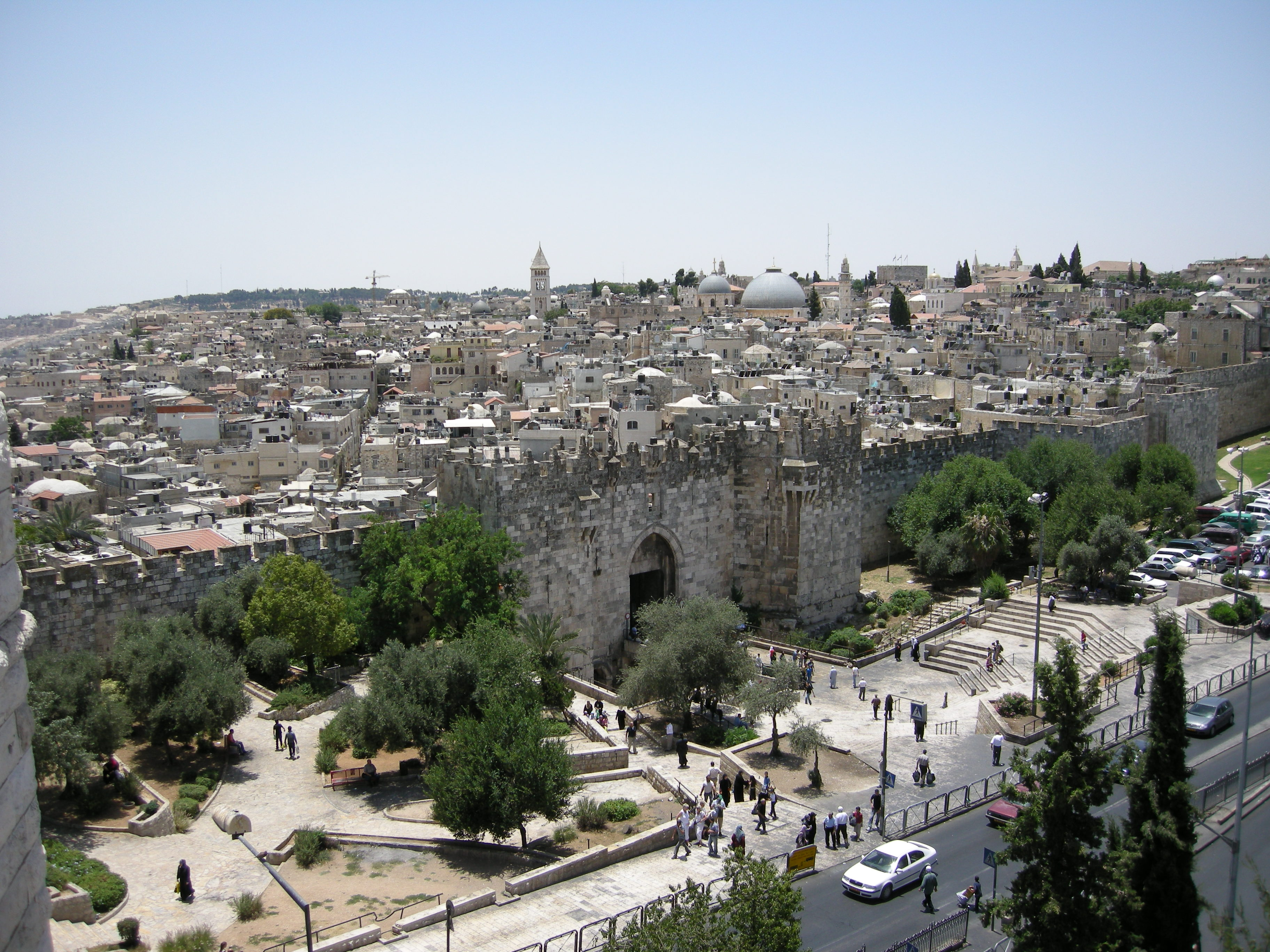 Siur_wikipedia_in__Jerusalem